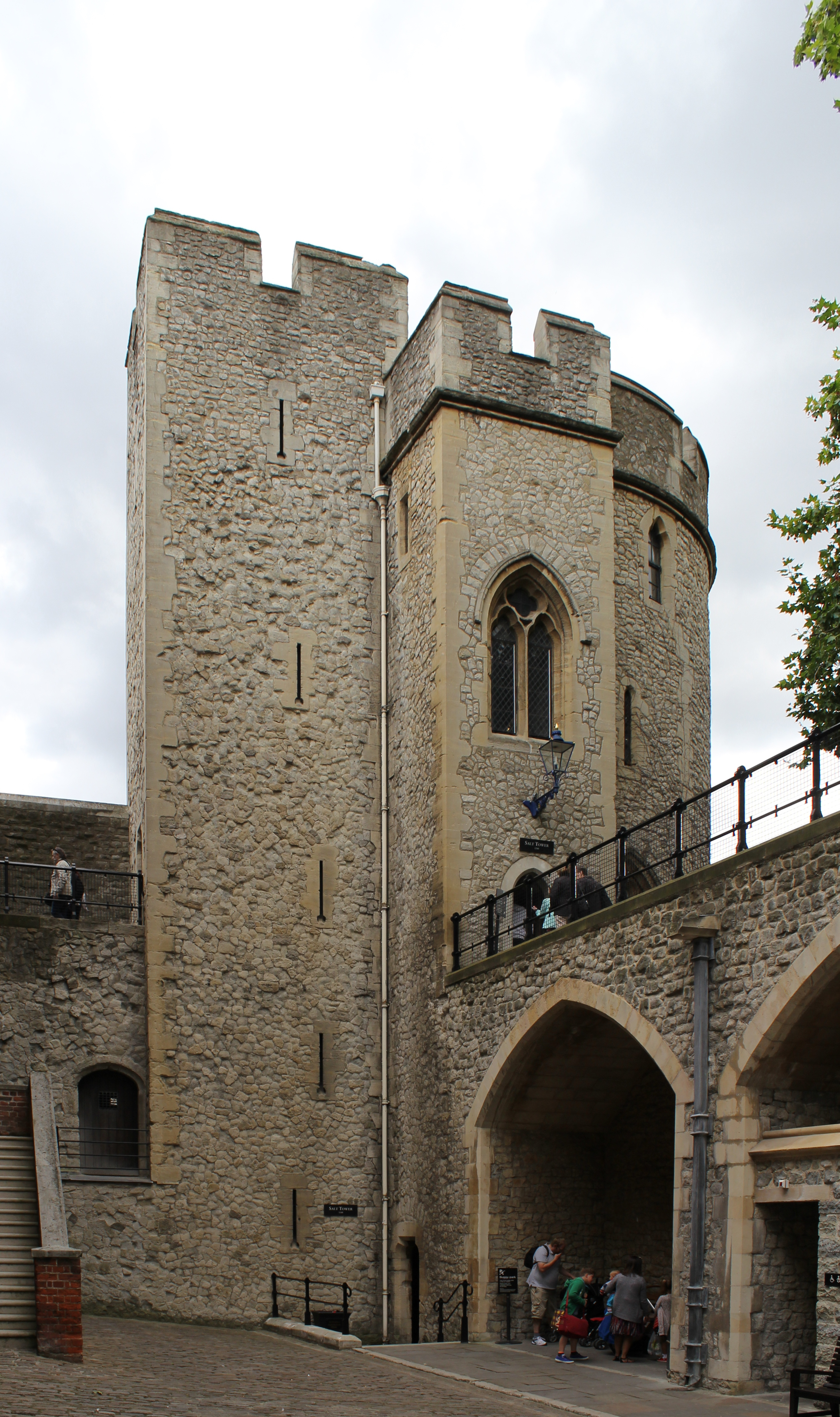 The Salt Tower Wikidata has entry Q17645576 with data related to this monument.